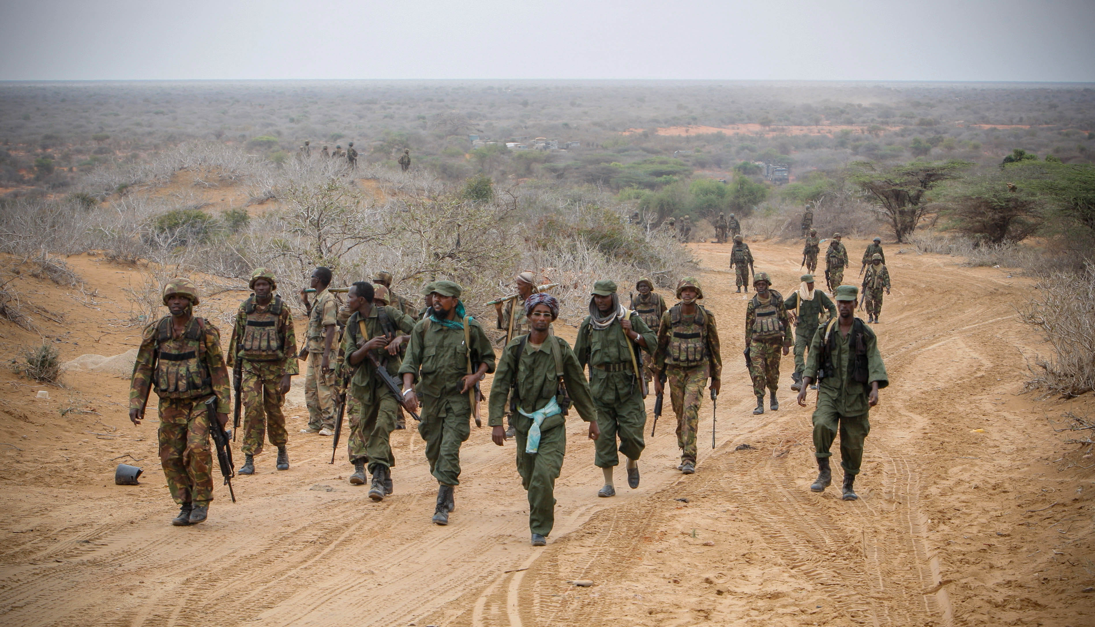 Fighters of the Ras Kimboni Brigade, a Somali government-allied militia and troops from the Kenyan Contingent of the African Union Mission in Somalia (AMISOM) are seen walking along a road during an advance on the Somali port city of Kismayo.Kenyan AMISOM troops moved into and through Kismayo on 02 October 2012, the hitherto last major urban stronghold of the Al-Qaeda-affiliated extremist group Al Shabaab, on their way to the city's airport without a shot being fired following a month-long operation to liberate towns and villages across southern Somalia from Afmadow to Kismayo. Al Shabaab, the once feared and brutal extremist group, has lost a succession of strategic towns and villages across Somalia to AMISOM and Somali National Army (SNA) forces in sustained operations against them since they withdrew from fixed positions in the capital Mogadishu in August of 2011. AU-UN IST PHOTO / STUART PRICE.